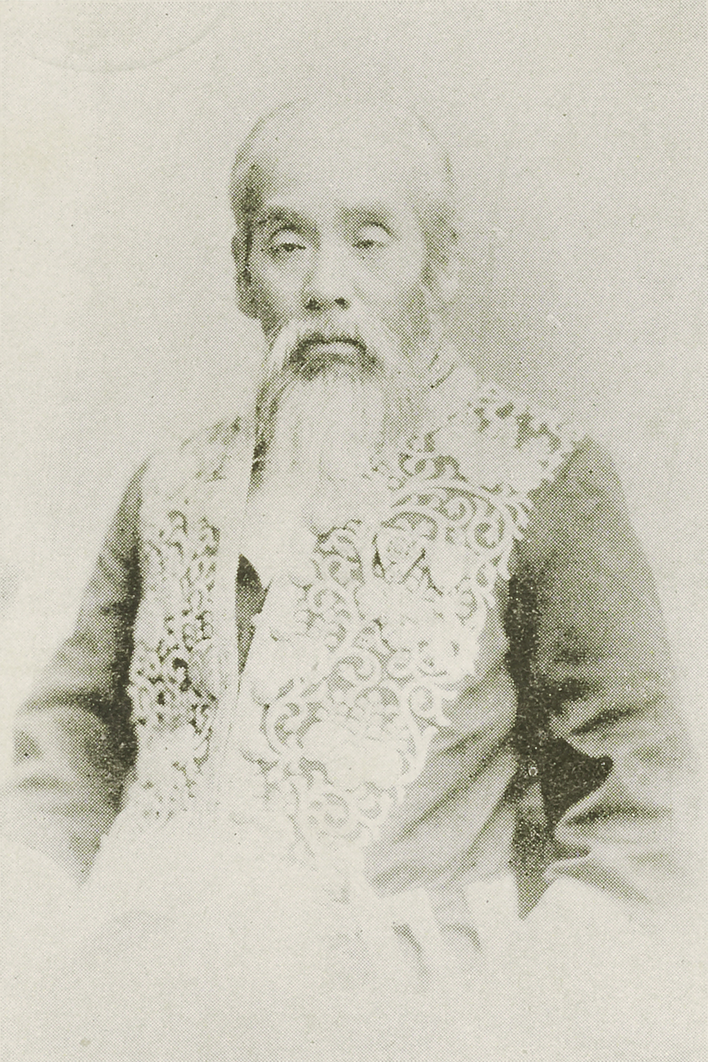 川田 甕江.Oko Kawada